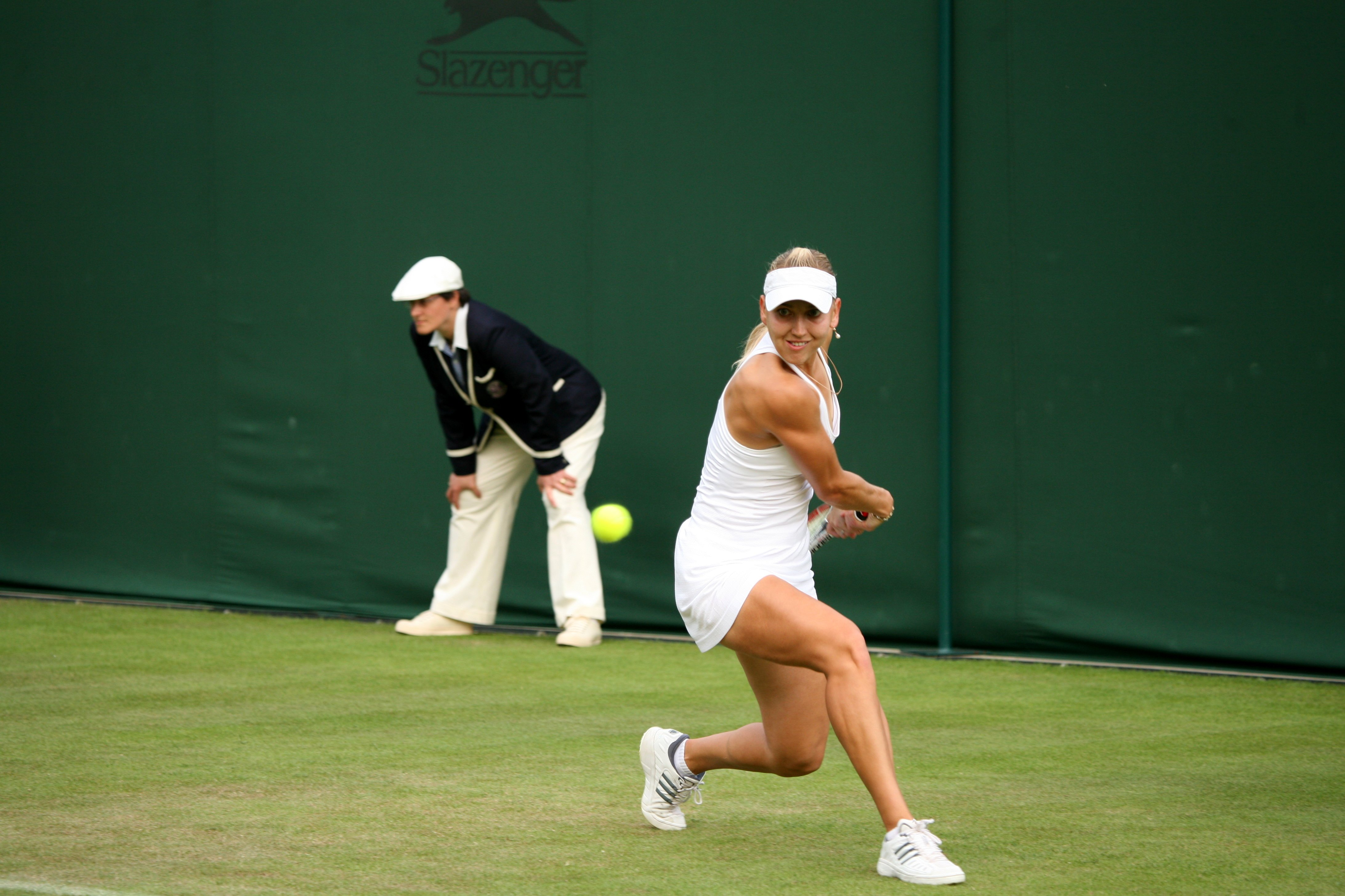 Elena Vesnina against Yanina Wickmayer in the 2009 Wimbledon Championships first round